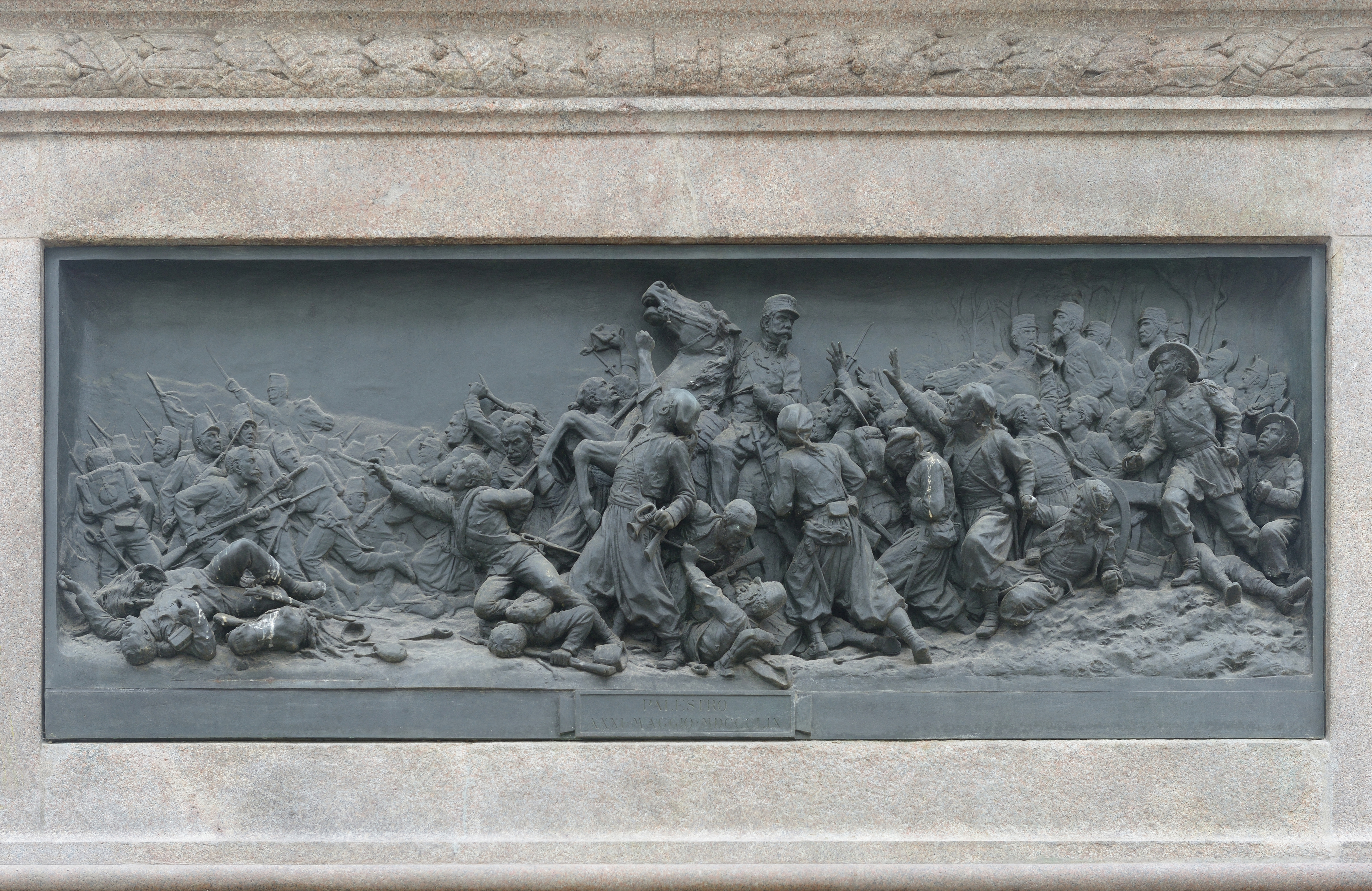 Bronze relief with Victor Emmanuel II of Italy at the Battle of Palestro on the Victor Emmanuel II monument by Ettore Ferrari 1987 in Venice